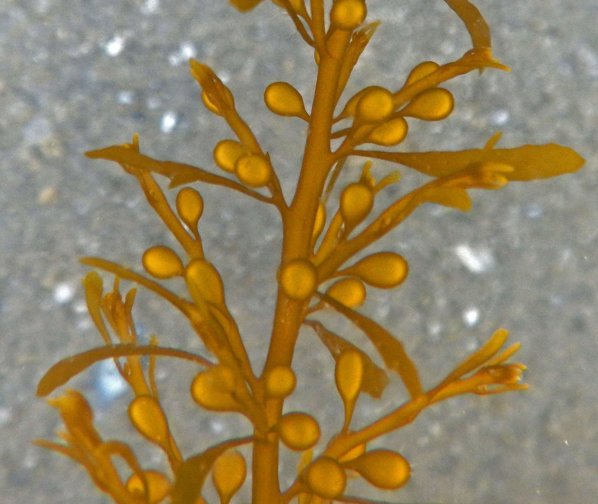 Sargassum (Sargassum muticum Yendo Fensholt 1955) photographed in situ in Wimereux shore (region of Hauts-de-France) in the bottom of the foreshore, July 16, 2016